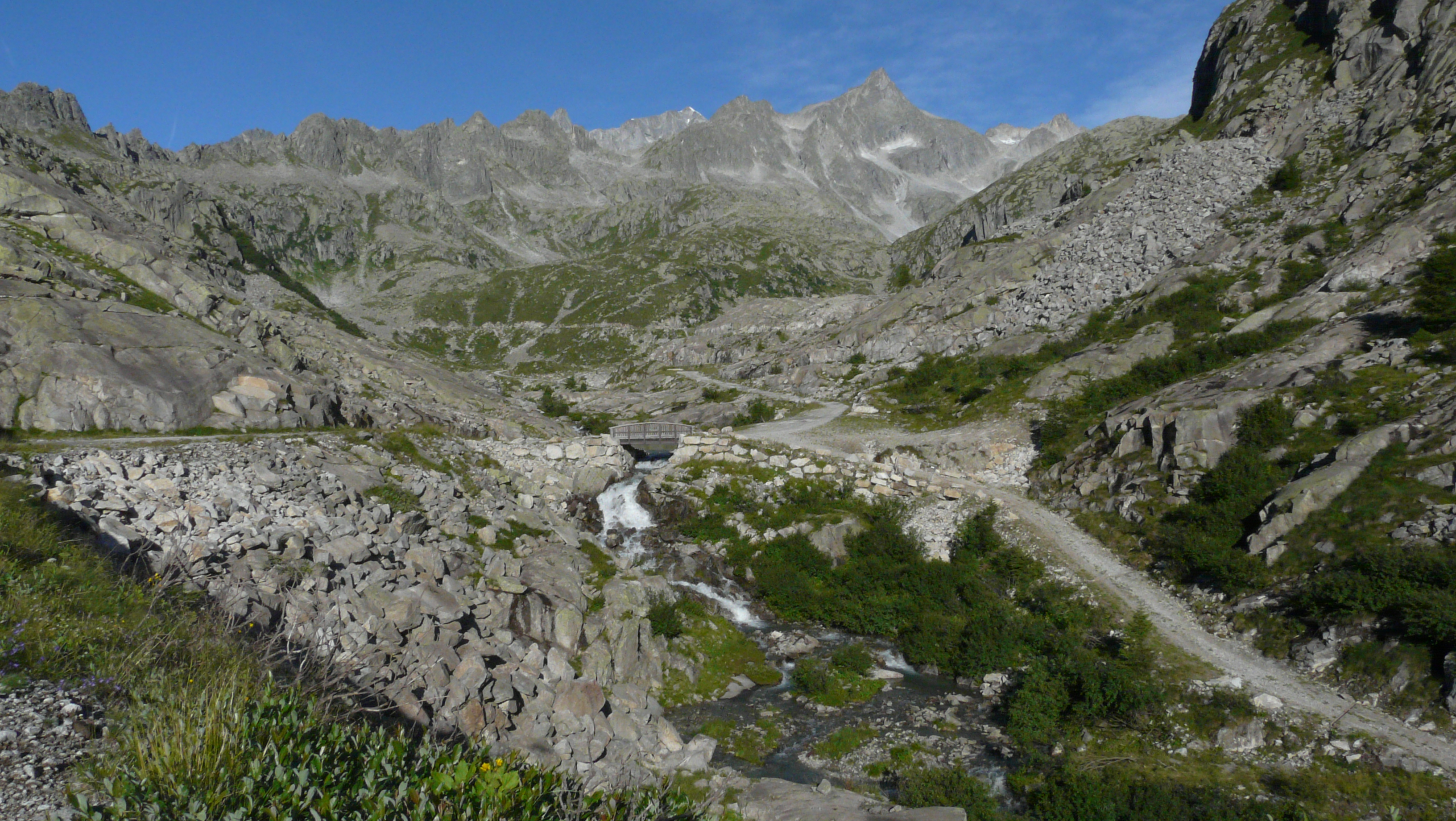 sarca